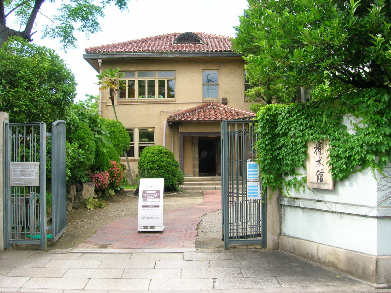 Bunka-no-michi (Nagoya's Cultural Path) Syumokukan. Loc: Higashi word, Nagoya city, Aichi Prefecture, Japan 文化のみち 橦木館 撮影場所 愛知県名古屋市東区